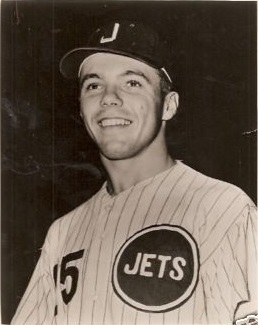 An early 1960s Houston Colt 45's press photo of Ron Davis, who was drafted by the team in 1962. The website also shows the information about Davis in the back of the photograph (which I can upload in request), and without a copyright notice. A check of several other pictures doesn't include copyright notices. It is therefore presumed the entire Colt 45s press kit is PD not renewed/PD no copyright 1978.